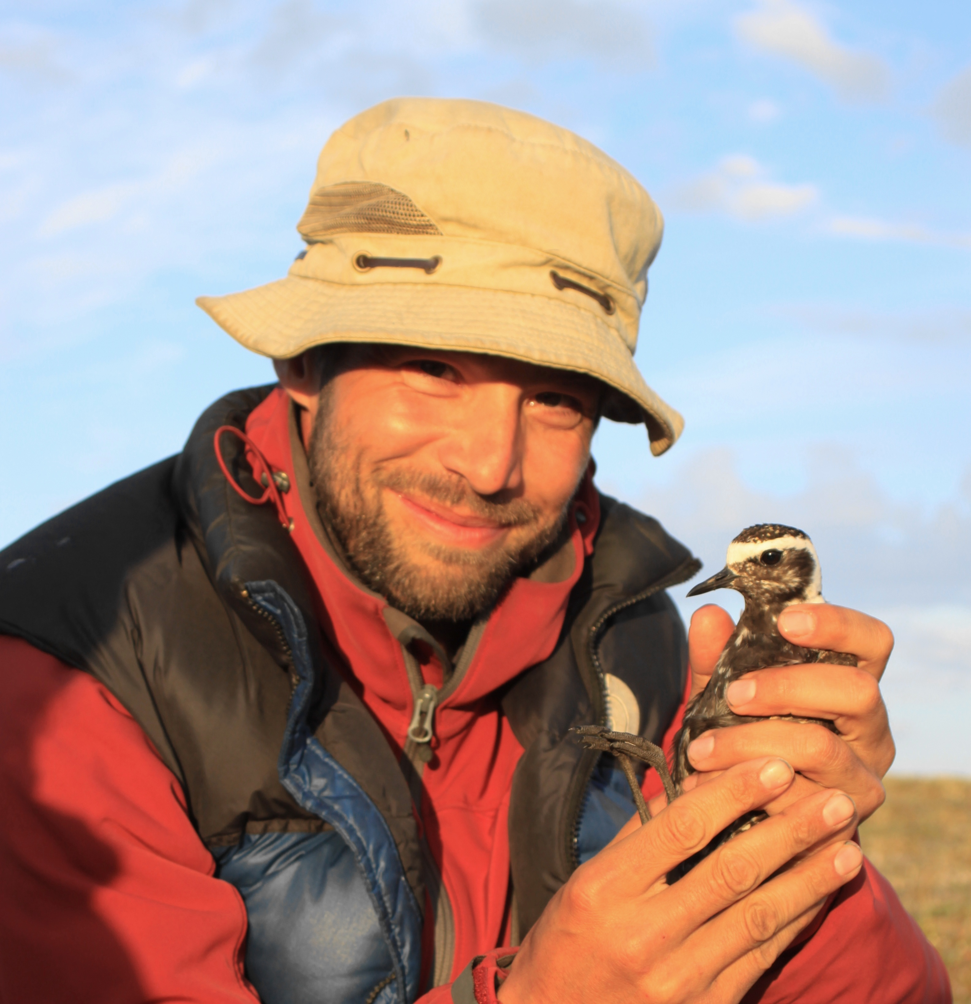 Joël Bêty, Canadian biologist